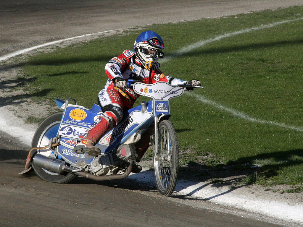 Polish speedway rider Krzysztof Buczkowski during match between Polonia Bydgoszcz and Unibax Toruń (April 19, 2009)